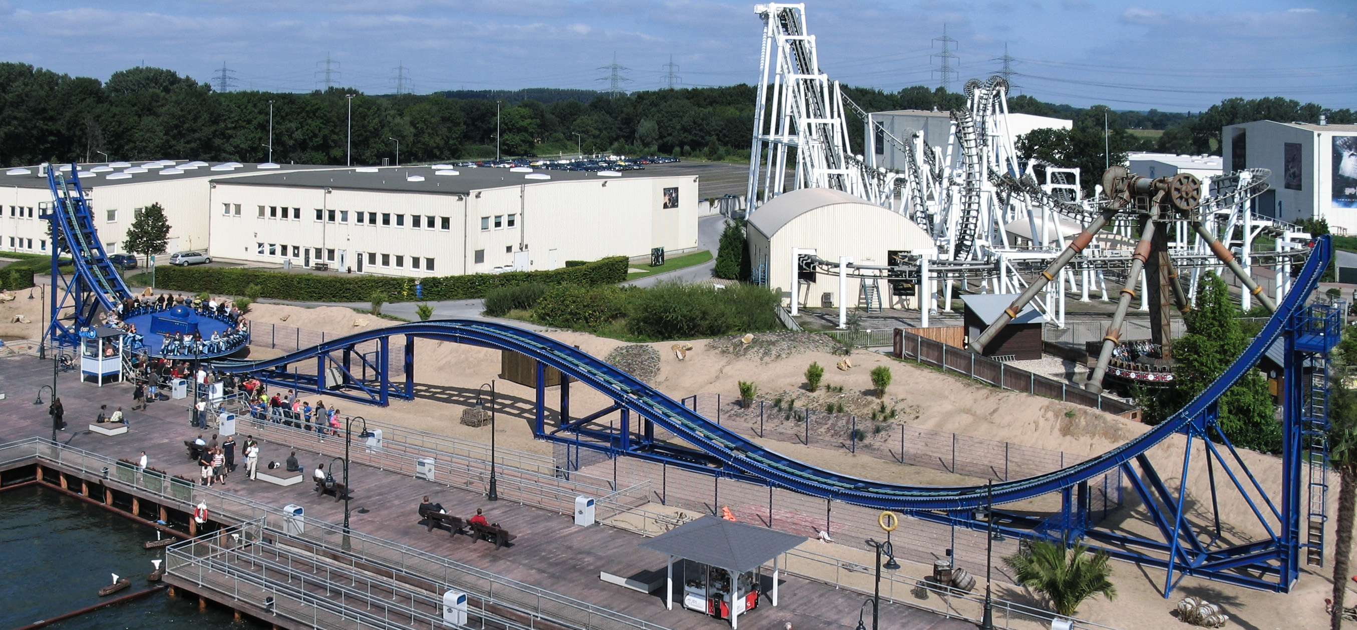 Disk’O Coaster Crazy Surfer at Movie Park Germany